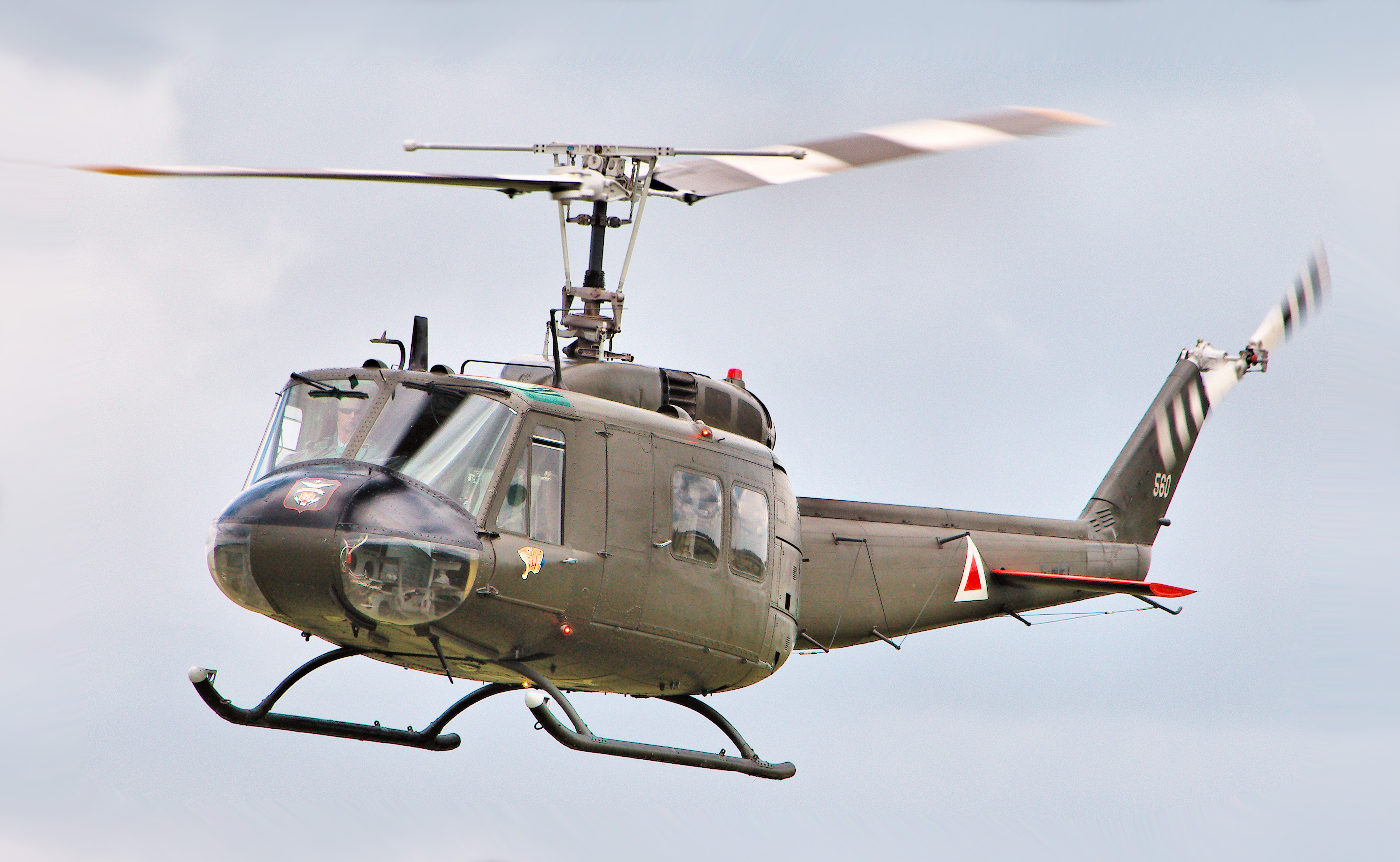 UH-1 Huey - Fly Navy 2017